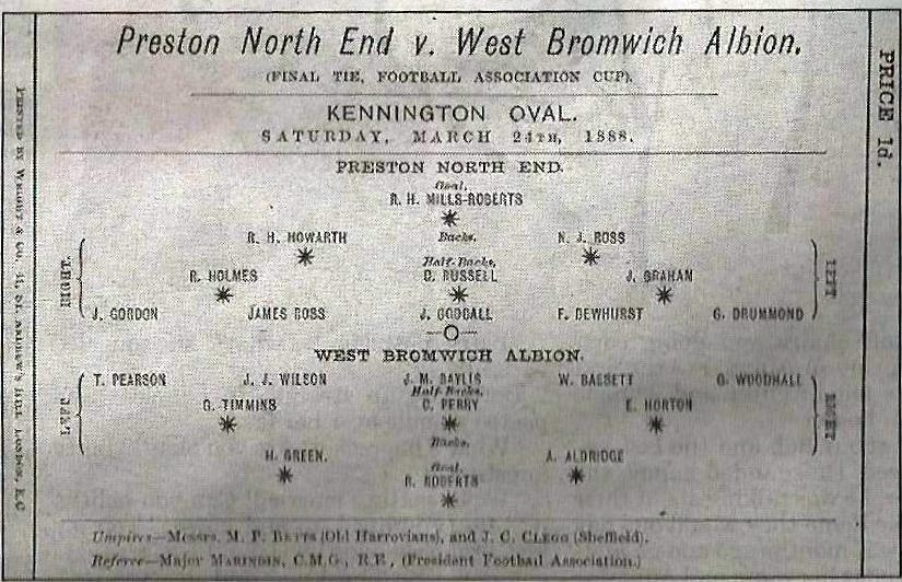 The programme from the 1888 FA Cup Final.